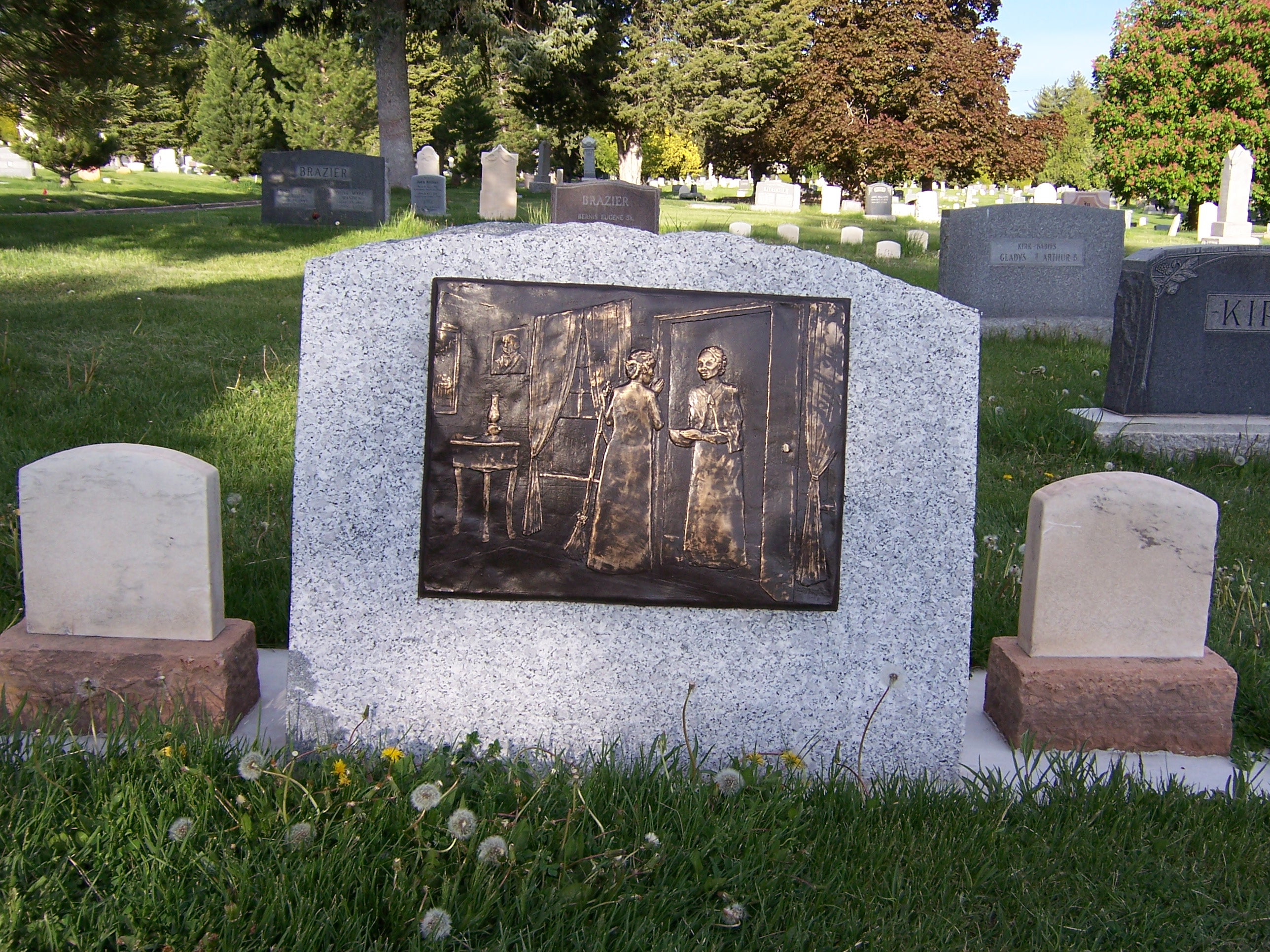 Jane Elizabeth Manning James' grave marker (back view).